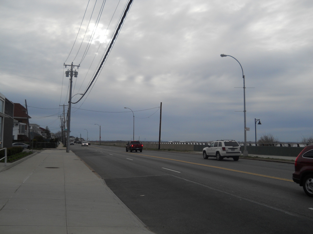 Beach Channel Drive, west of Beach 116 Street in Rockaway Park, Queens.